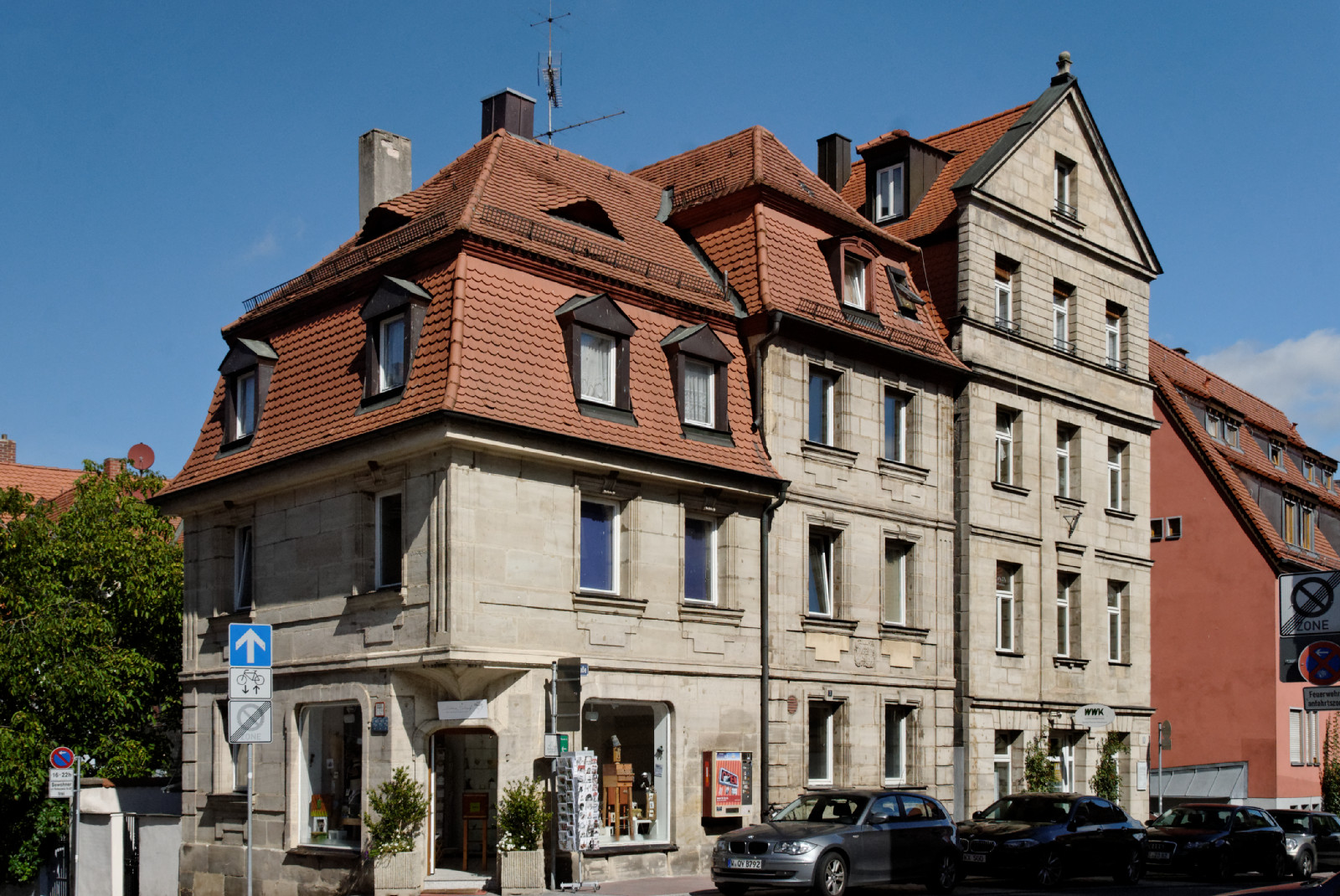 Houses Angerstraße 2, Heiligenstraße (3) and 5 in Fürth, Germany